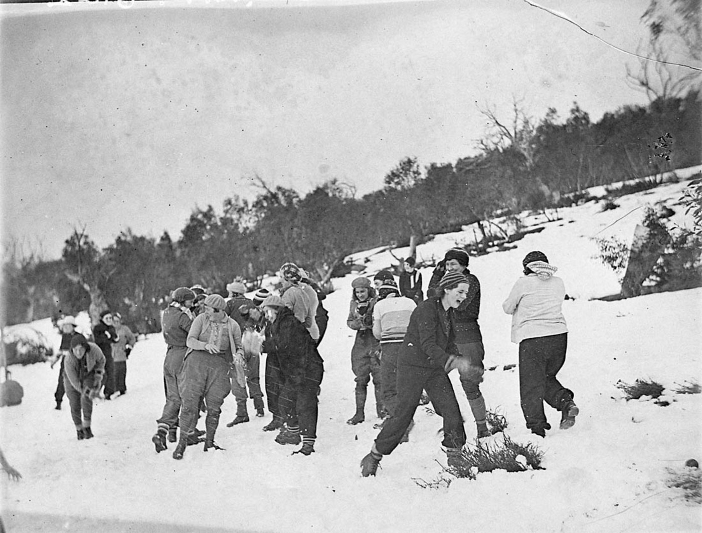 Group therapy for the pupils